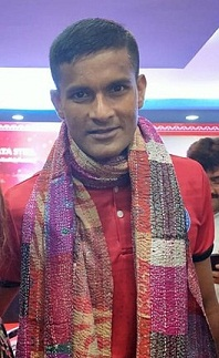 Subrata Pal